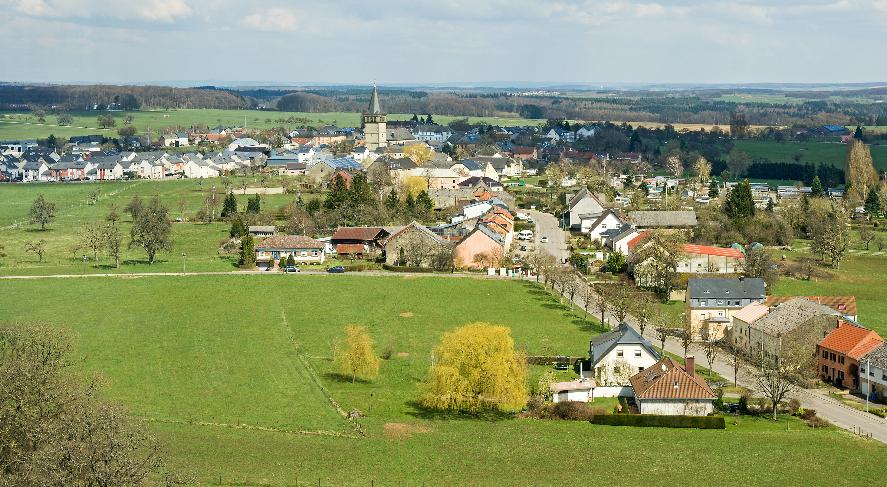 Panorama of Berdorf (seen from Aquatower)